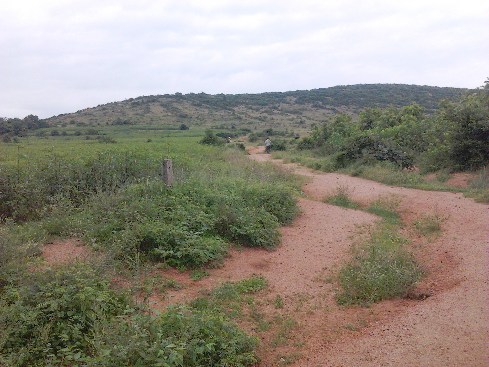 vannali